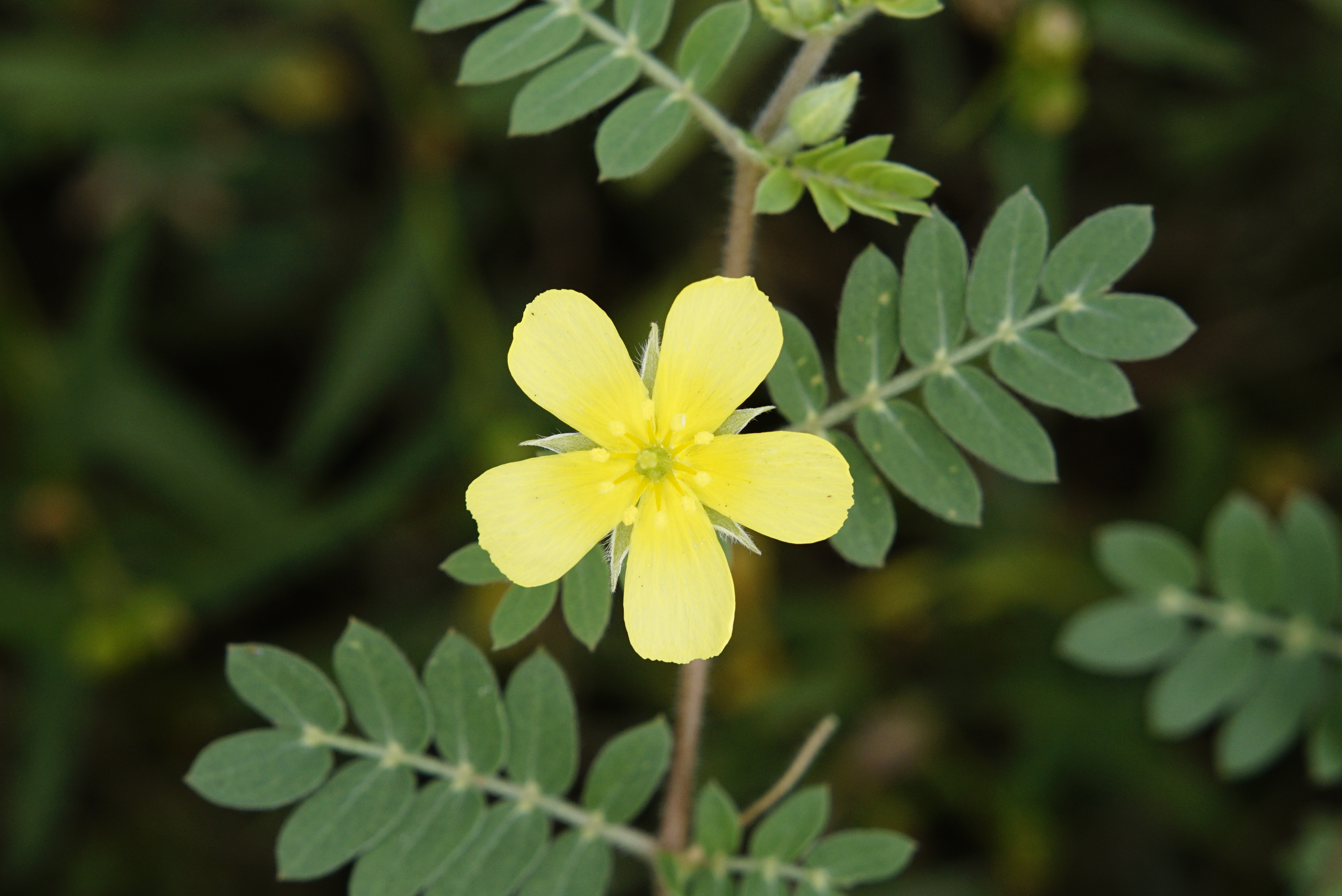 Tribulus terrestris